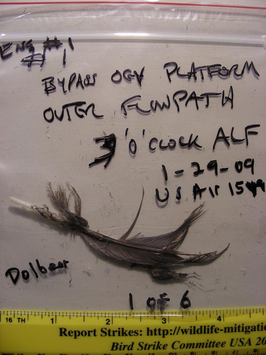 A bird feather found in the left (#1) engine of US Airways Flight 1549. The flight had been forced to ditch in the Hudson River, reportedly due to bird strikes.